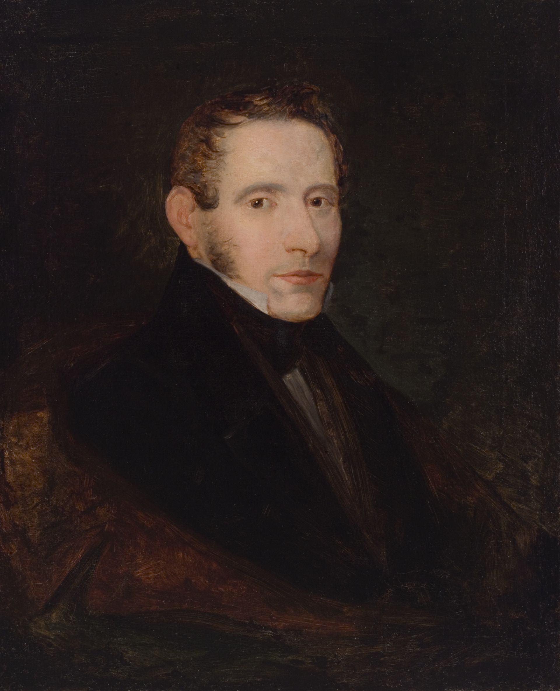 Józef Kowalewski, orientalist.